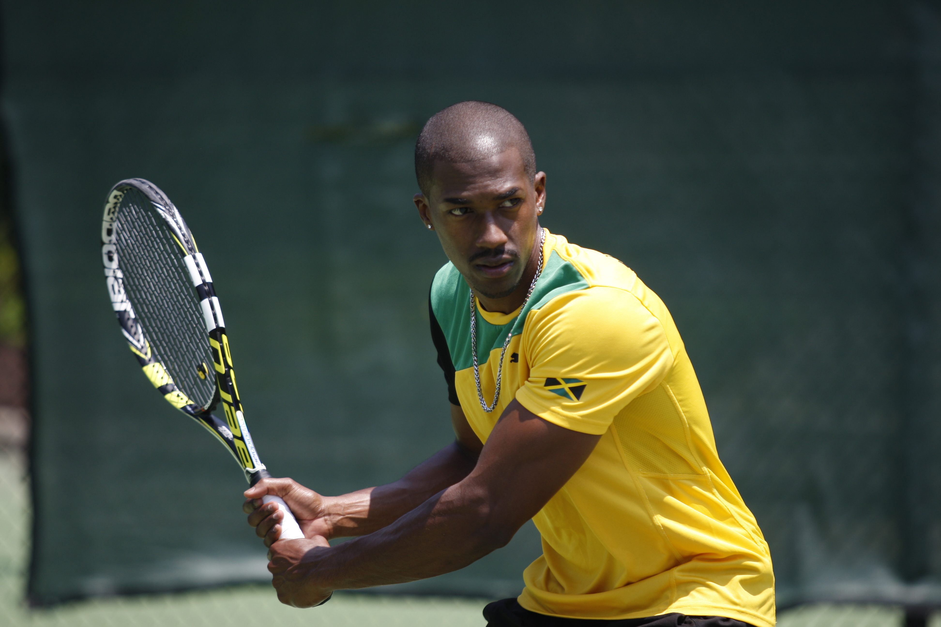 Dominic Pagon hits backhand return for Jamaica in Davis Cup